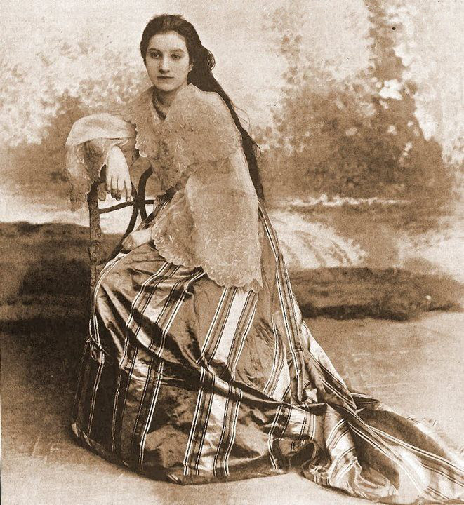 Filipino woman with traditional Maria Clara dress of the Philippines and the long hair old tradition of women in the Philippines